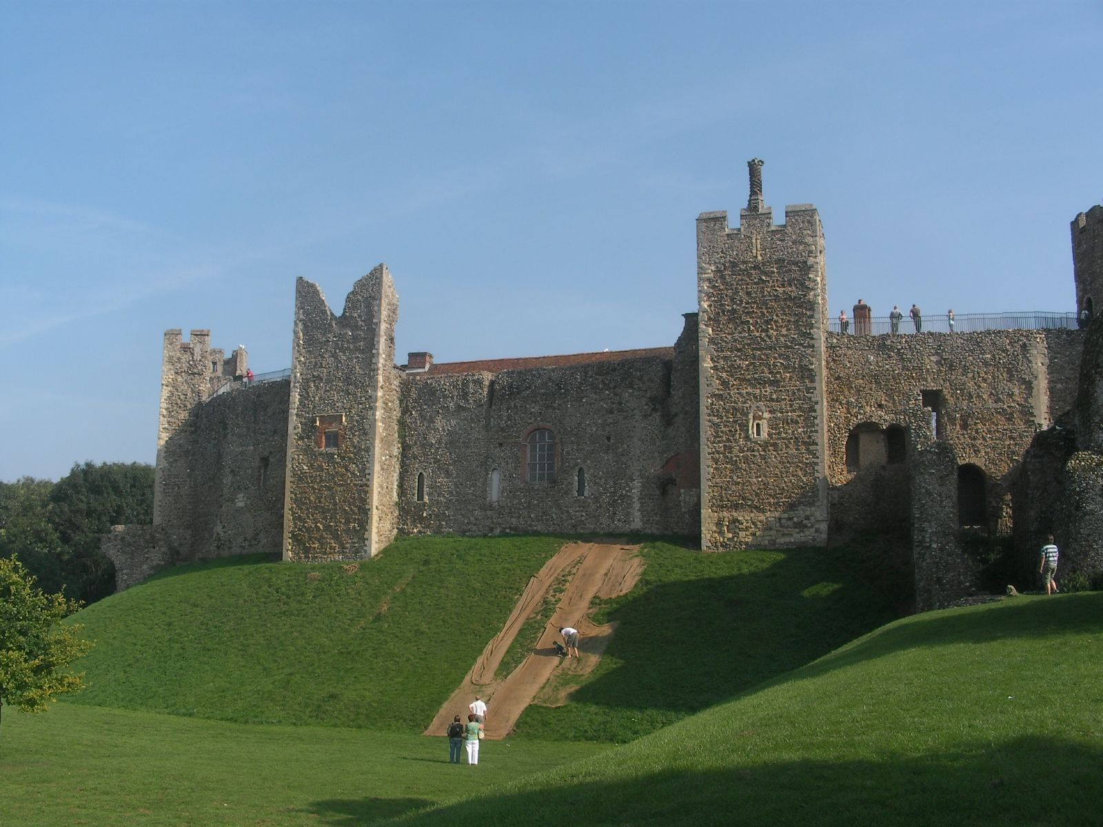 Postern Gate at Framlingham Caste